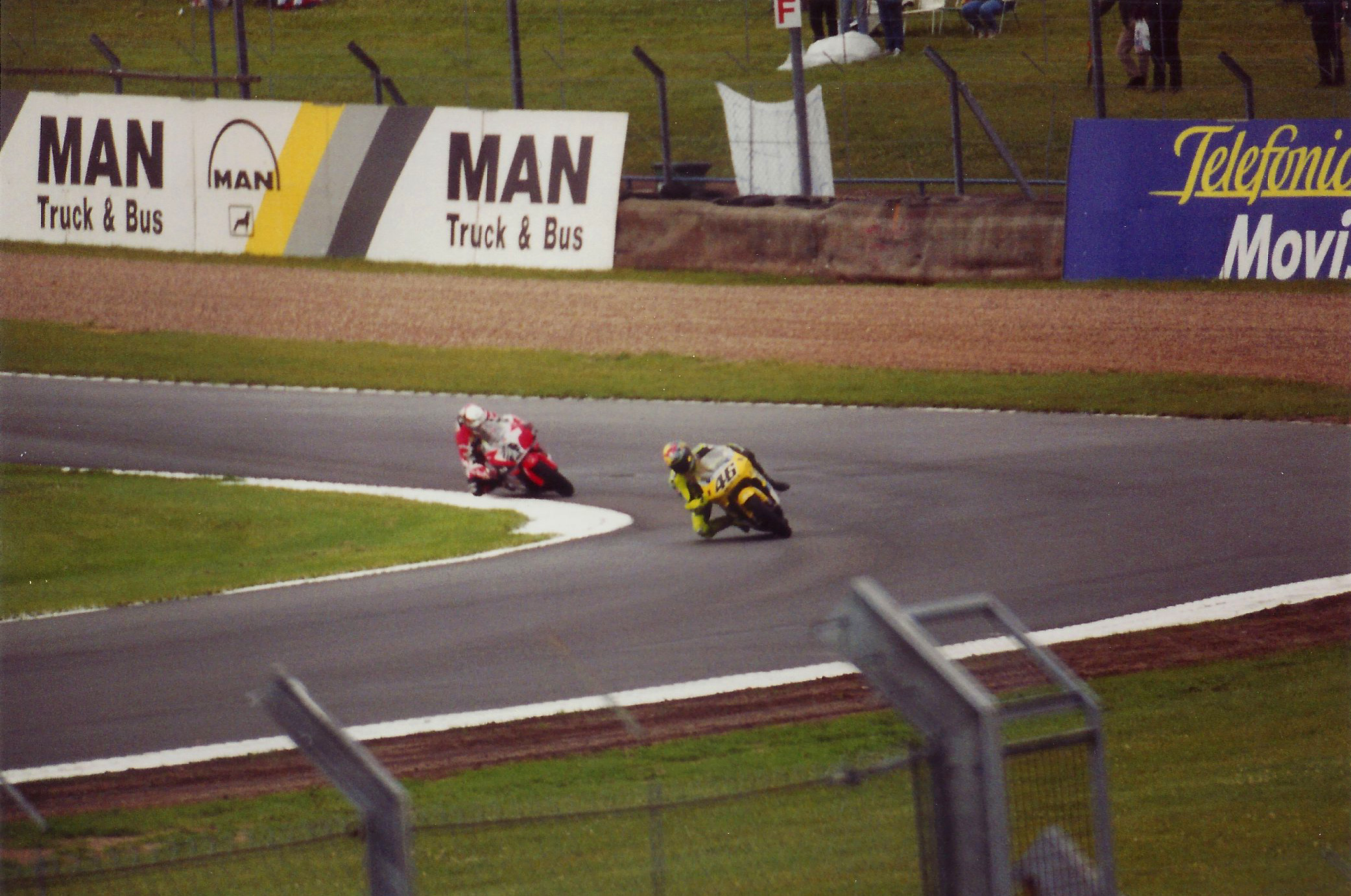 Valentino Rossi, riding his Nastro Azzurro Honda, being followed by the Blu Aprilia of Jeremy McWilliams at the 2000 British Grand Prix.